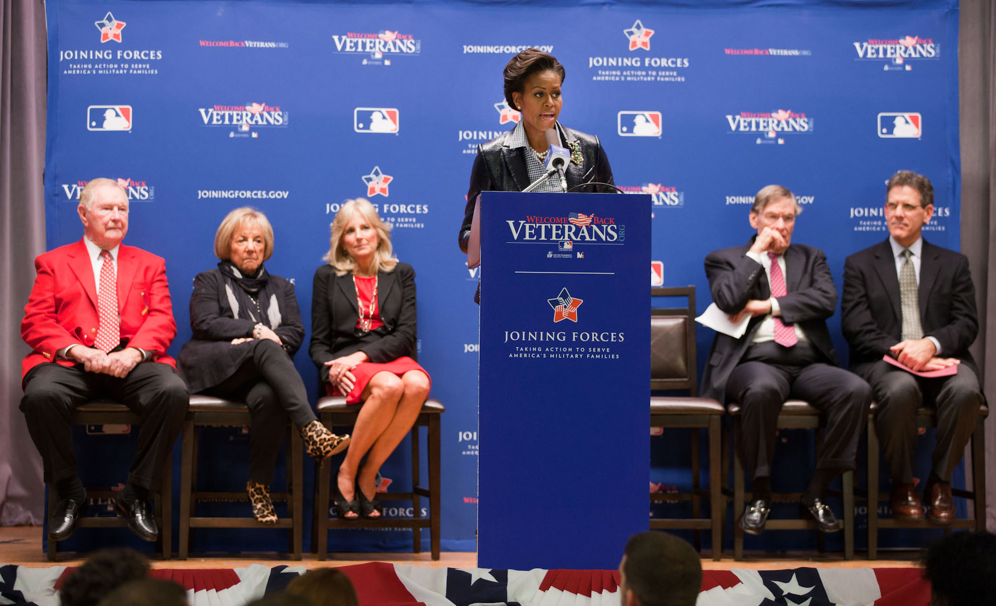 First Lady Michelle Obama and Dr. Jill Biden join representatives from Major League Baseball (MLB) and the St. Louis Cardinals in hosting a Joining Forces military families appreciation event at the St. Louis Veterans Medical Center in St. Louis, Mo., Oct. 19, 2011. Joining them on stage are, from left: MLB Hall of Famer Red Schoendienst; Sue Selig; MLB Commissioner Bud Selig; and Tim Brosnan, MLB Executive Vice President of Business.